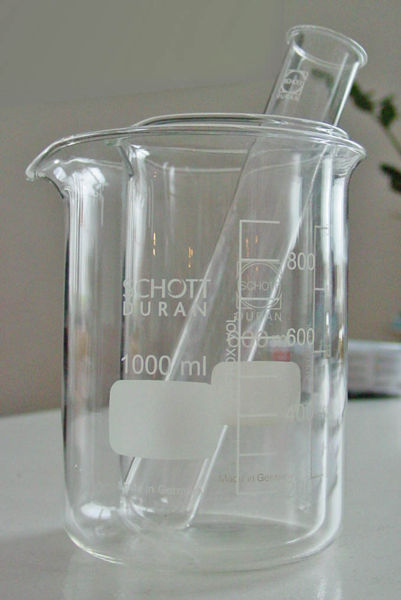 Schott Duran glassware. A 1000 ml and 600 ml beaker and a 30mm diameter test tube.